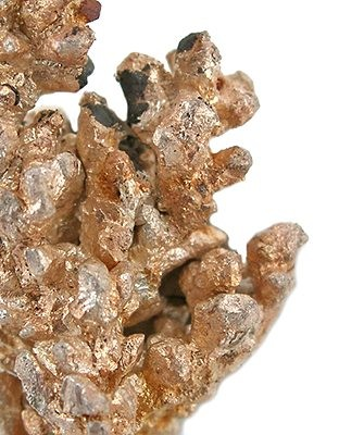 Silver Locality: White Pine Mine, White Pine, Ontonagon County, Michigan, USA (Locality at ) Size: 4.1 x 1.8 x 1.2 cm. A branching, complete crystallized specimen of Michigan silver, an old White Pine Mine piece with fine aesthetics and a pretty patina. Nice and beefy, too.